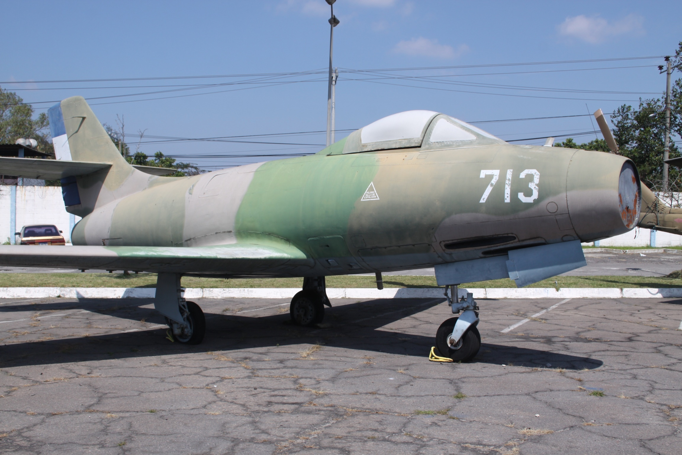 At Ilopango International